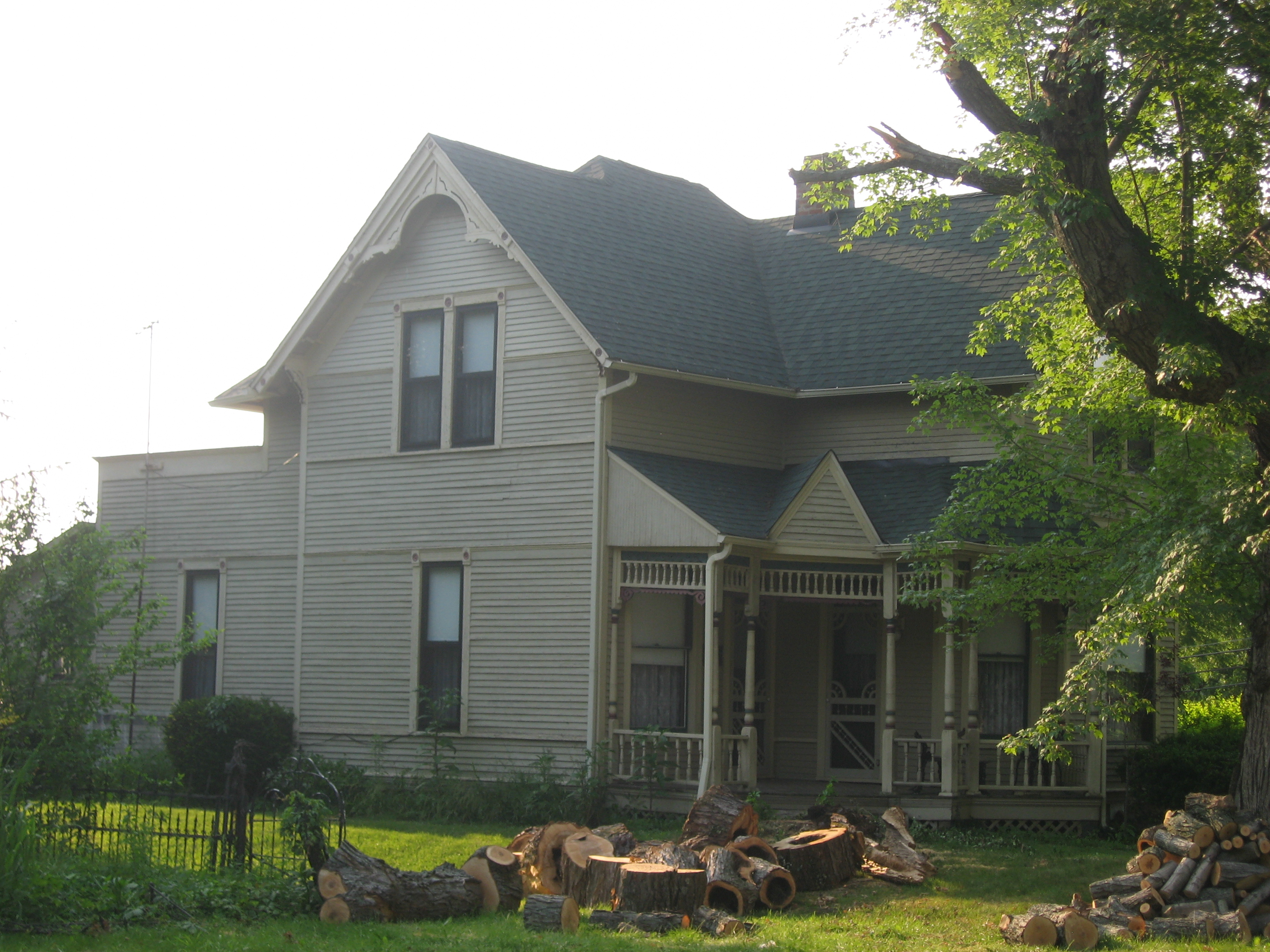 Front and southern side of the Frank Wheeler Hotel, located on the southwestern corner of the junction of Second and Main Streets in Freetown, Indiana, United States. Built in 1890, it is listed on the National Register of Historic Places.